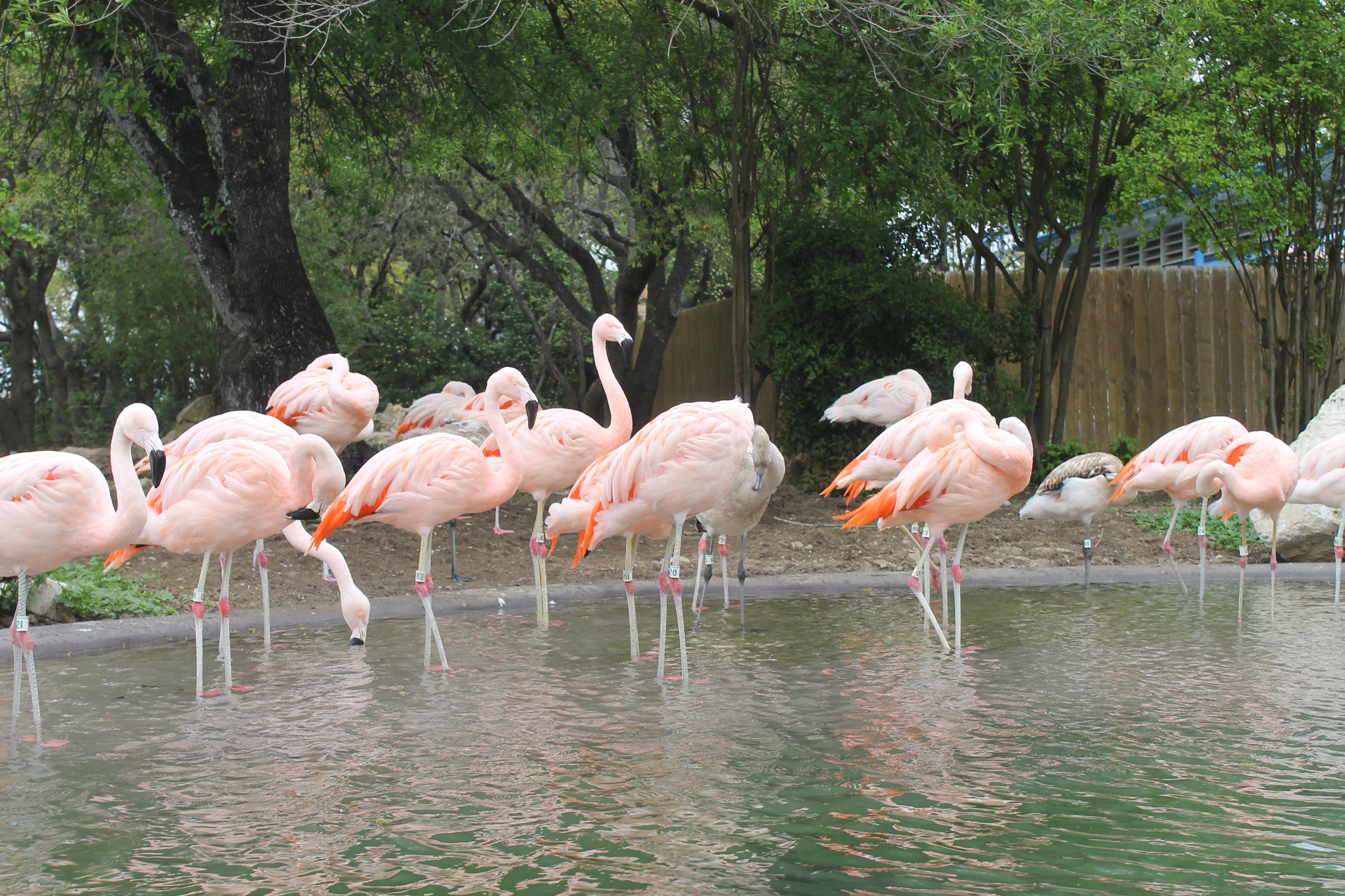 Flamingos at Sea World in San Antonio, TX